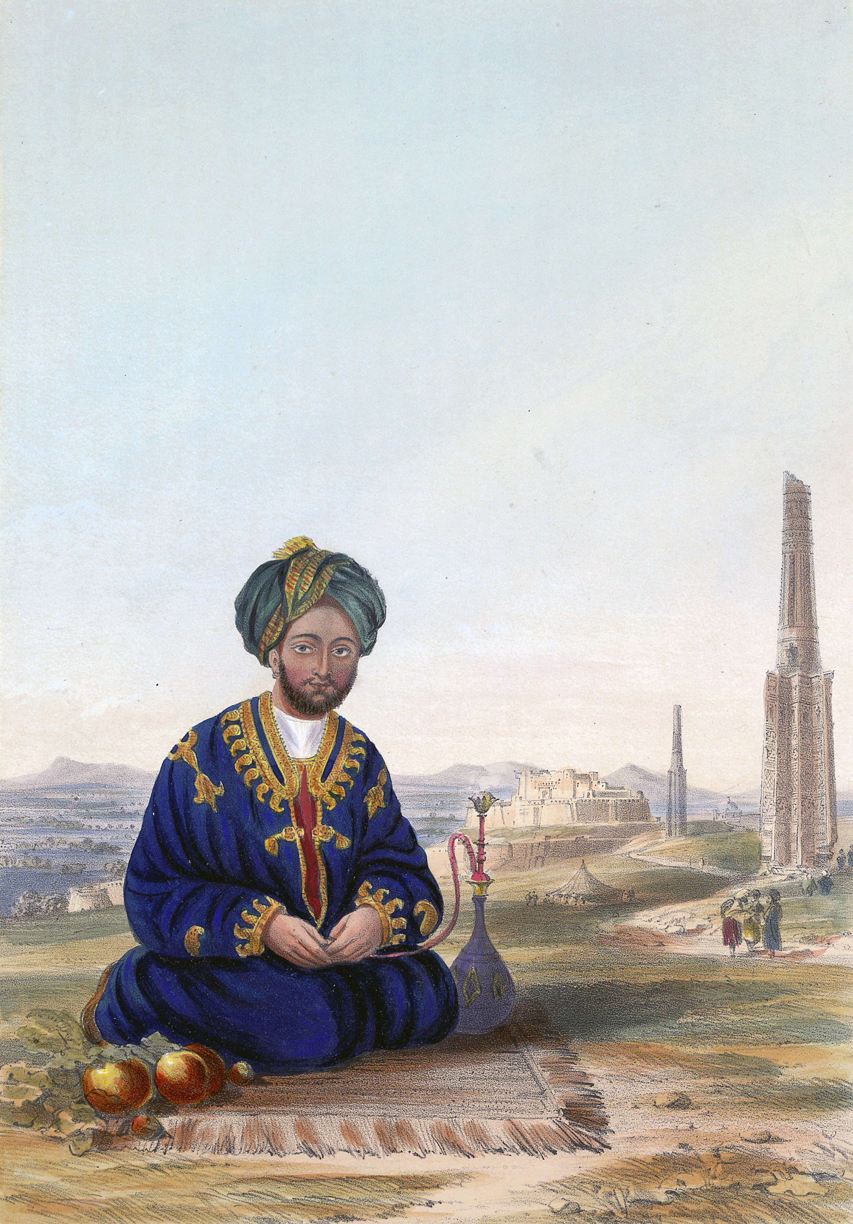 Hyder Khan, the Governor of Ghuznee This lithograph was taken from plate 19 of 'Afghaunistan' by Lieutenant James Rattray. When the British took Ghazni in July 1839, one of the most important consequences was the capture of its governor, Ghulam Haider Khan, the fourth son of Dost Mohammed. Fearing for his life, Ghulam tried to escape from the city, but was intercepted and eventually received and pardoned by the incumbent Emir, Shah Shuja. When Dost Mohammed regained his position in Afghanistan, Ghulam became prime minister of Kabul, succeeding his brother Akbar. In so doing, Ghulam became Dost Mohammed's most likely successor and thus upset his two older brothers who felt they had been sidelined. According to Rattray, he was a large, good-looking and very stout young man who resembled his father. This portrait is a copy of a picture owned by Dowager Lady Keane, rather than a study from life.